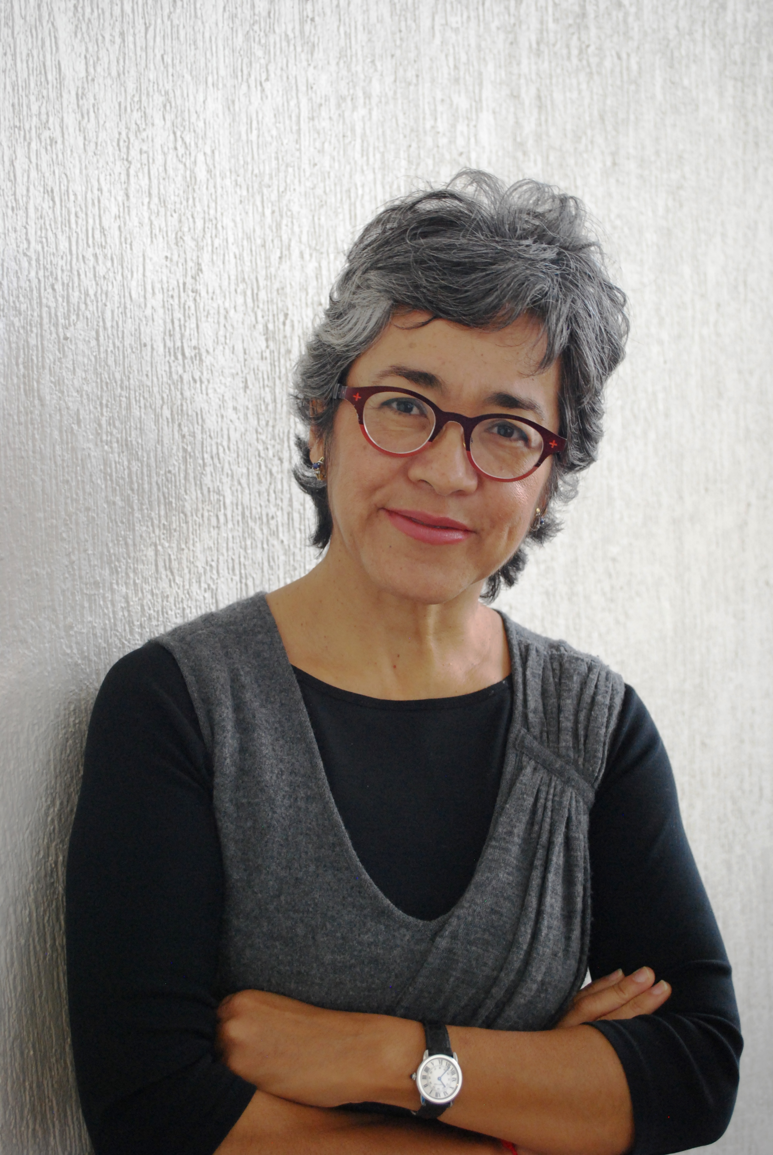 Cristina Rivera Garza, taken at Tec de Monterrey, Campus Ciudad de Mexico